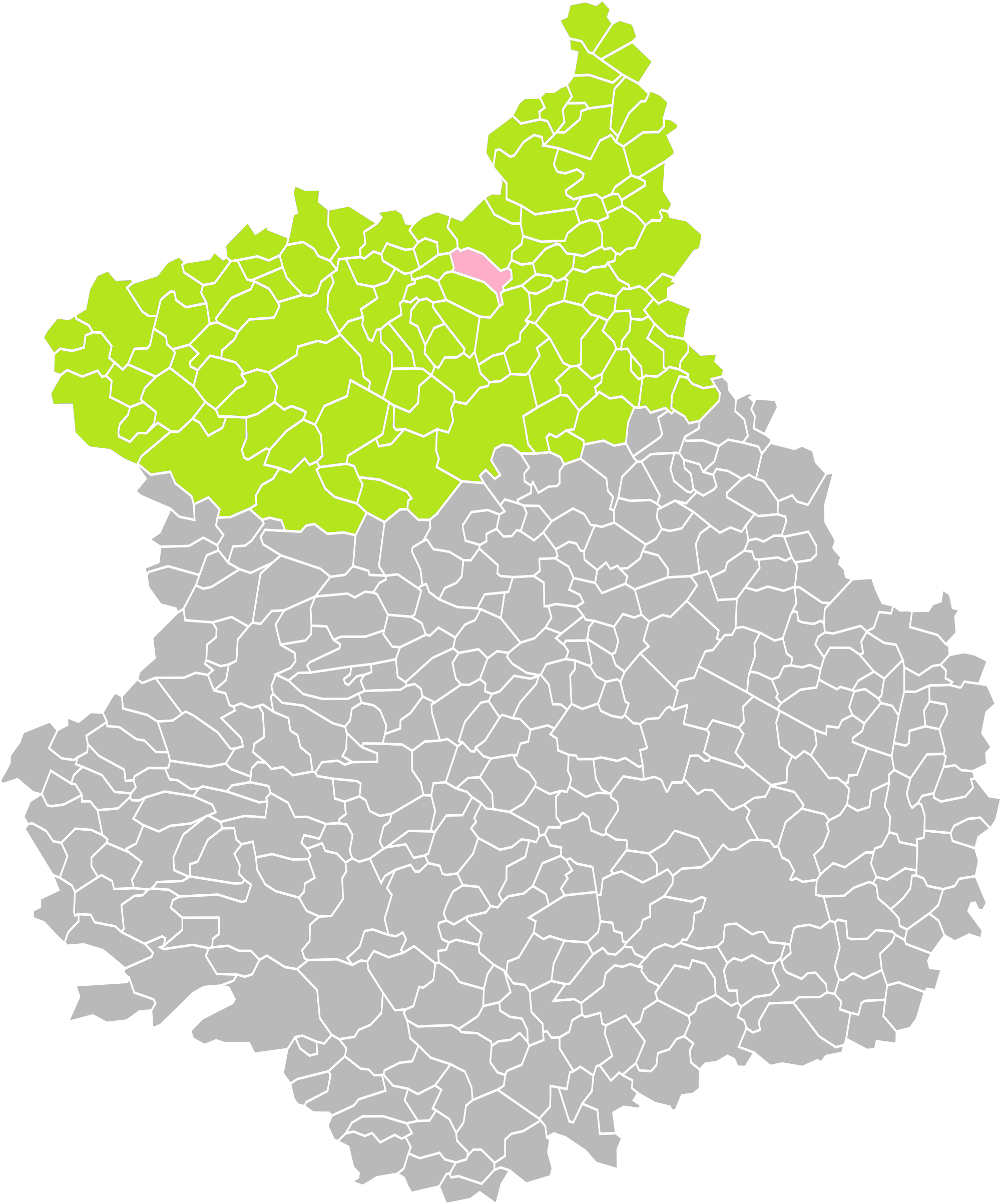 Location of the commune of Vernouillet in the arrondissement of Dreux (Eure-et-Loir)